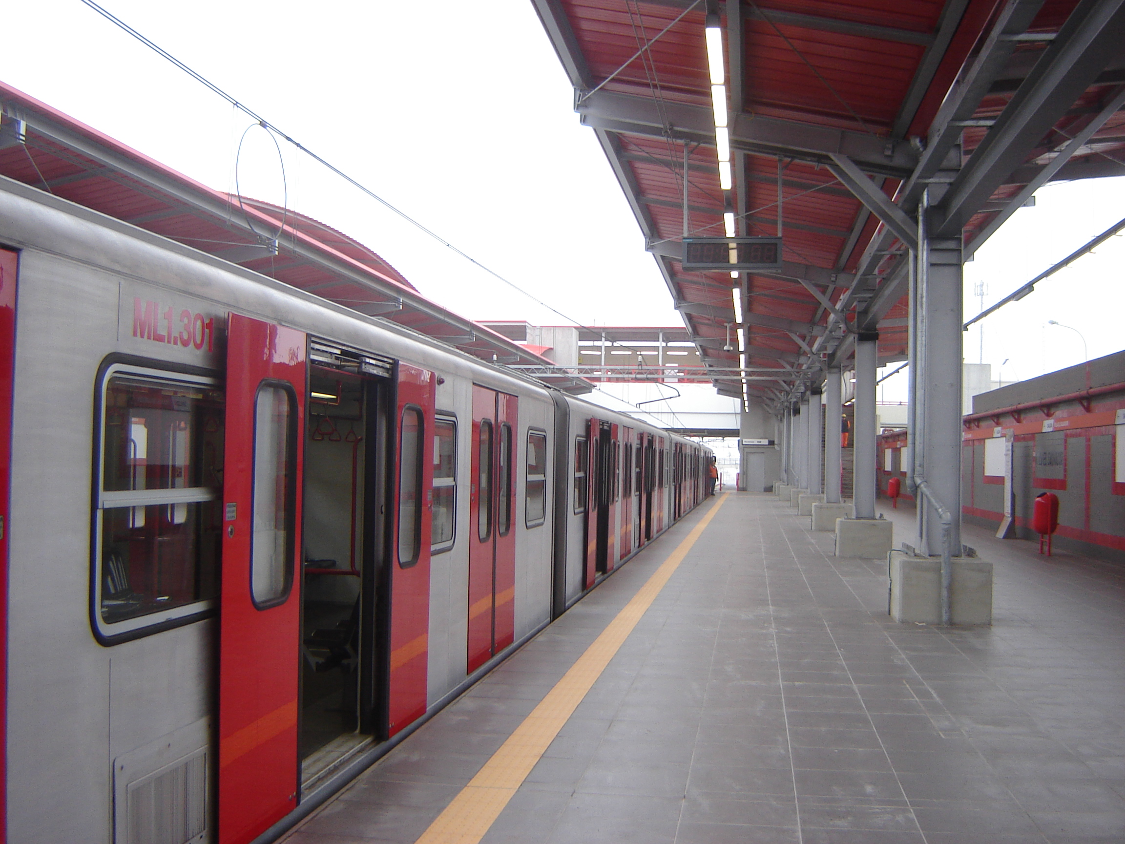 Parked train at Villa El Salvador del Metro Station in Lima.